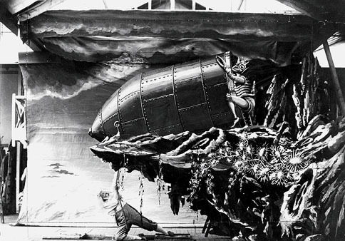 Production still from Georges Méliès's 1902 film La Voyage Dans La Lune (A Trip to the Moon). This uncropped version of the still shows more detail than is seen in the film, including the edges of the backdrop and the floor of the studio.